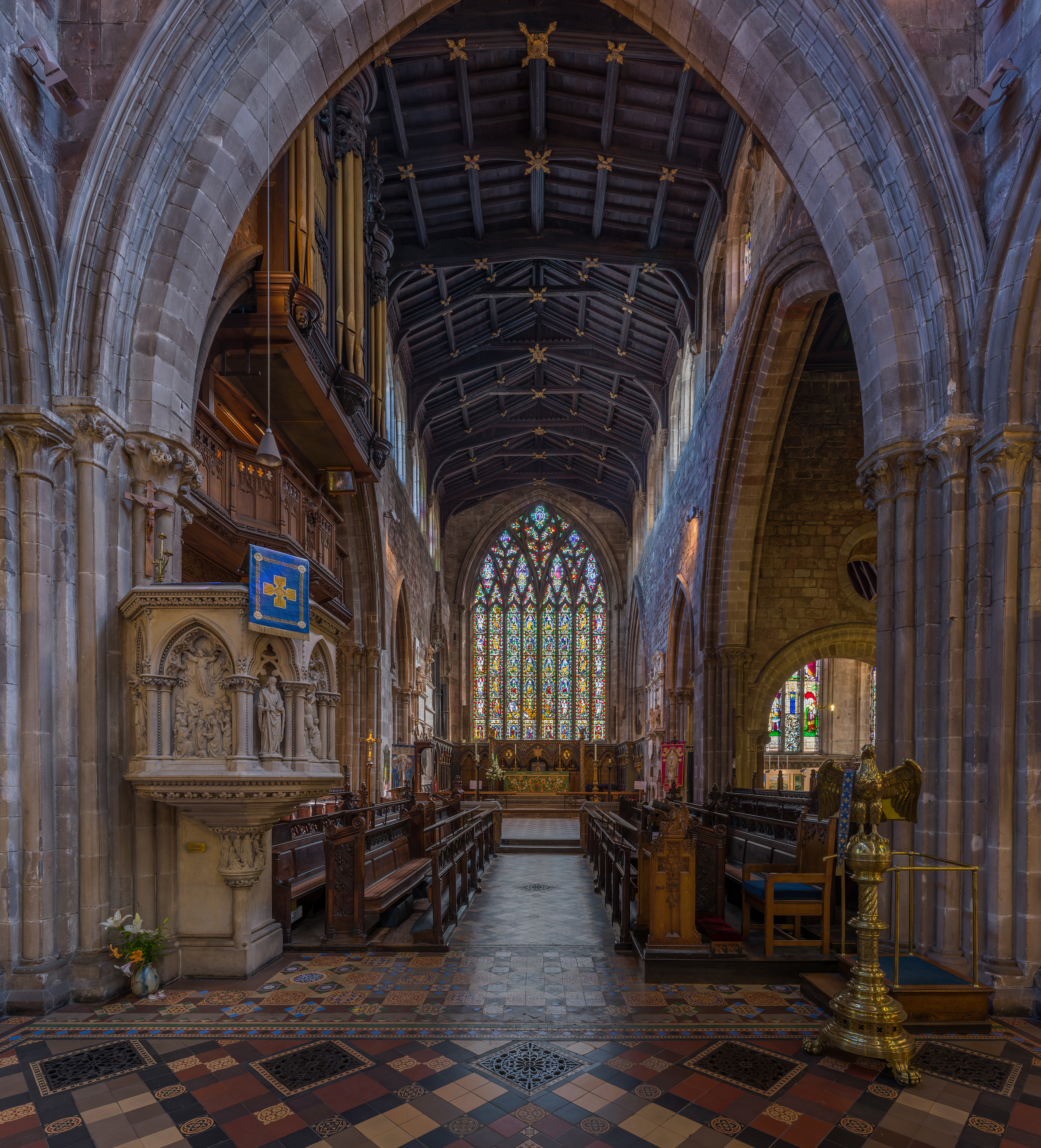 The choir, organ and pulpit of St Mary's Church looking west towards the nave in Shrewsbury, Shropshire, England.